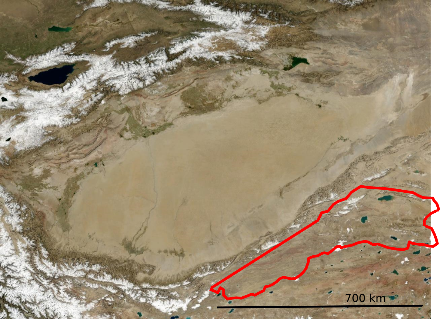 Borders of Altun Shan National Nature Reserve (in red). (Also called "Aerjinshan")